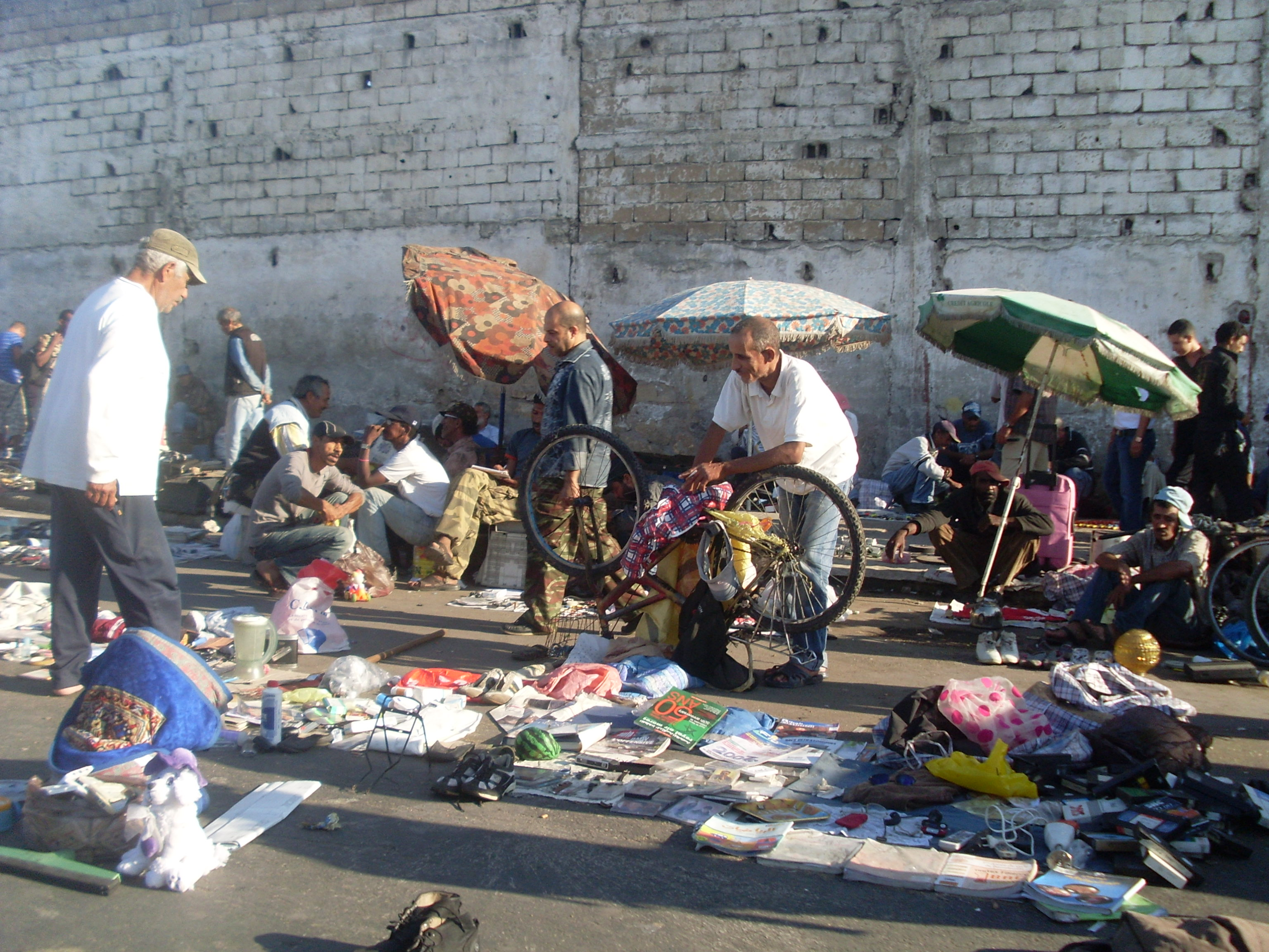 [Maria Tahri] Jobless Moroccans find a way to make money by working in the informal market. العاطلون عن العمل في المغرب يجدون طريقا لكسب المال من خلال العمل في السوق غير الرسمية Les chômeurs marocains trouvent un moyen de gagner leur vie en travaillant sur les marchés informels.